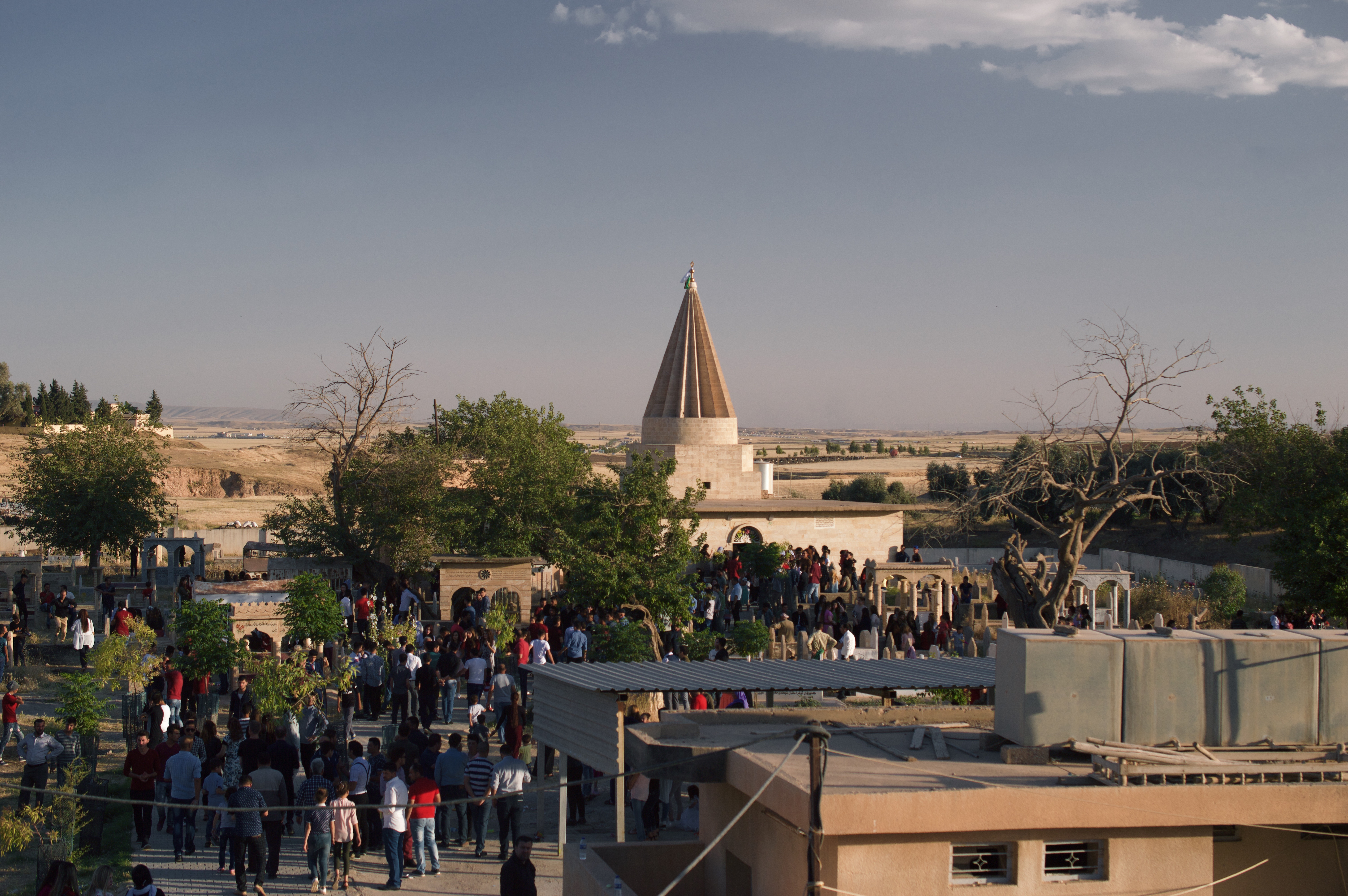 Yezidi village of Baadre near Shekhan and Duhok, near the Shrine of Haji Ali